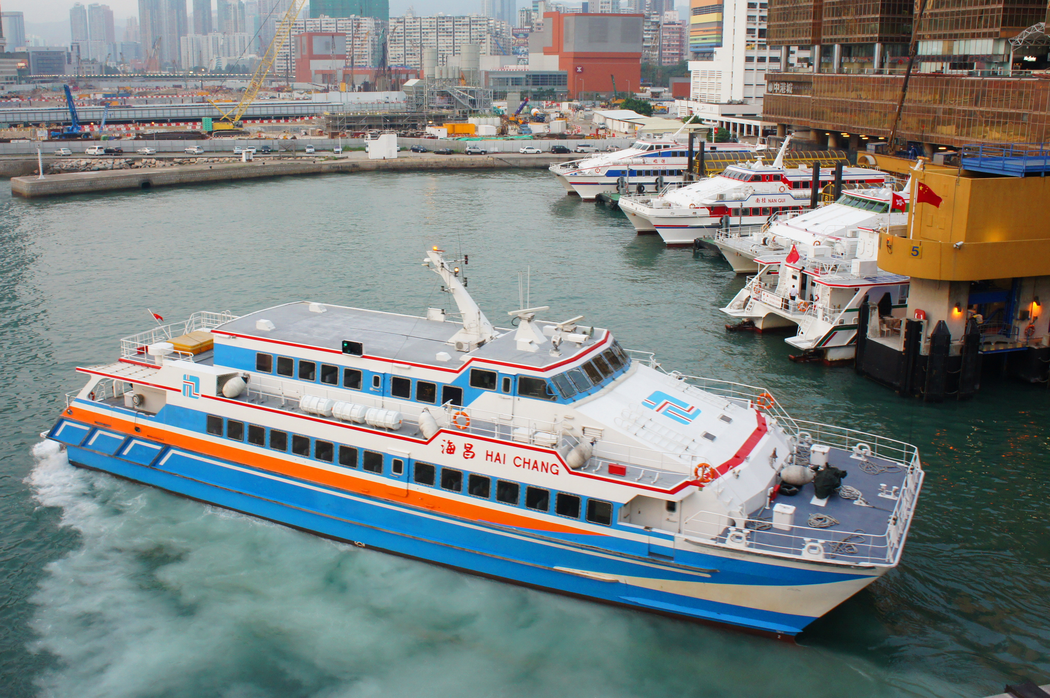 A Chu Kong Passenger Transport catamaran - Hai Chang at the China Ferry Terminal, Kowloon, Hong Kong. Flag: People's Republic of China Client: Zhuhai Jiuzhou Port Administration Group Co, PRC Built by: Austal Hull number: 99 Hull type: Catamaran Length: 39.90 metres Capacity: 338 pax Speed: 32.5 knots Year Delivered: Mar 1993